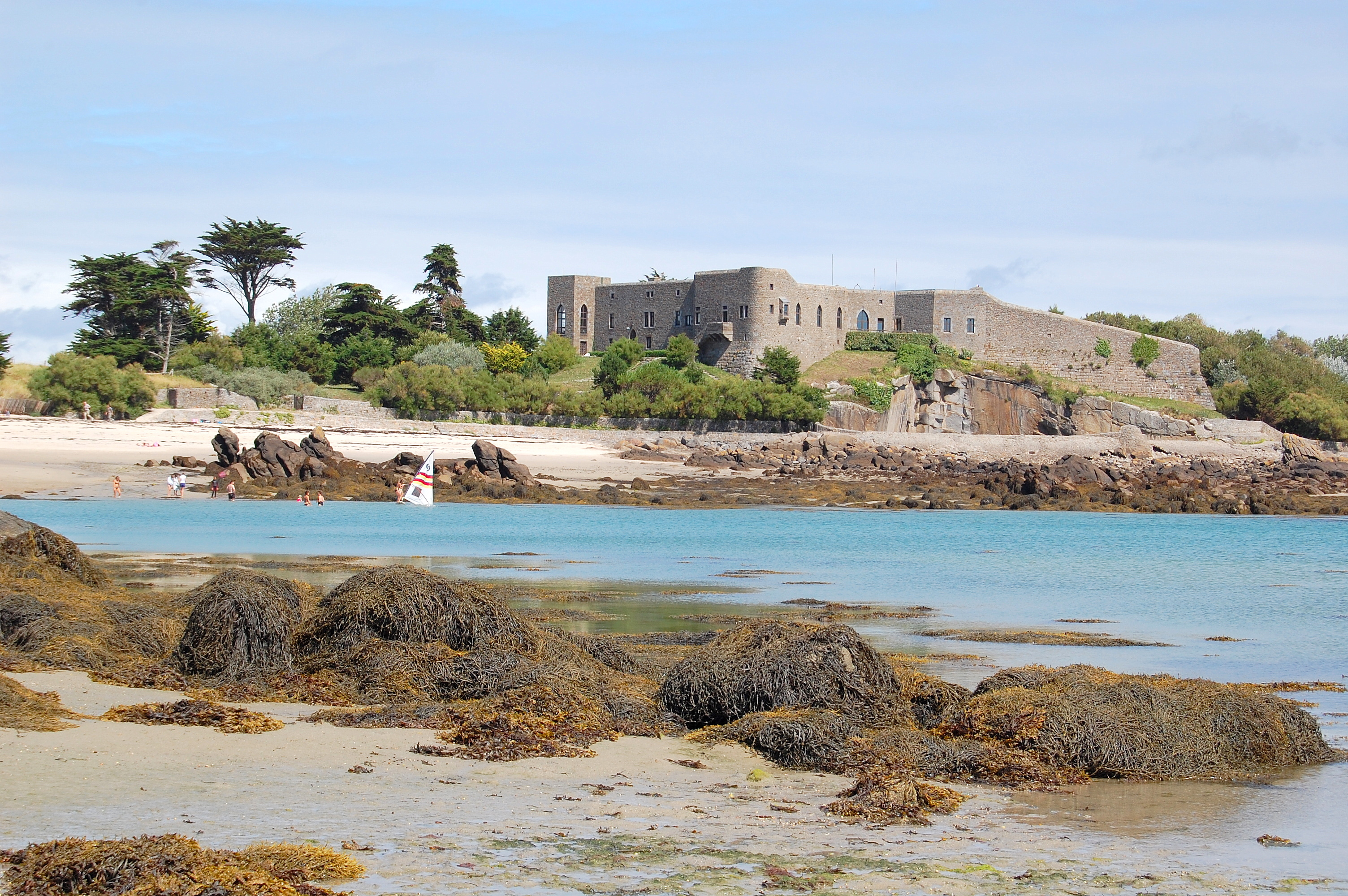 The castle on the Grande Île of Chausey Island, France